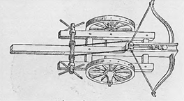 Arcuballista (siege crossbow).